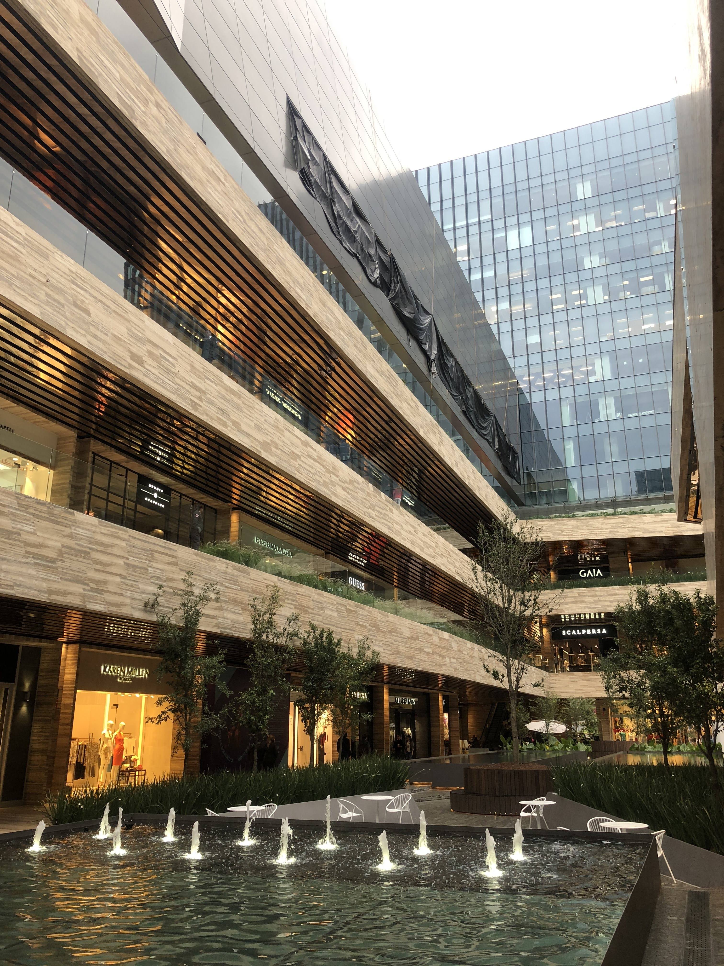 Artz Pedegral